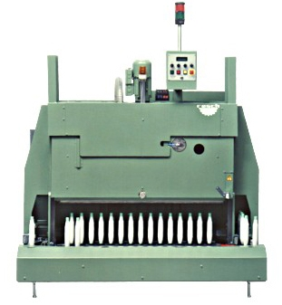 Cops heat setting